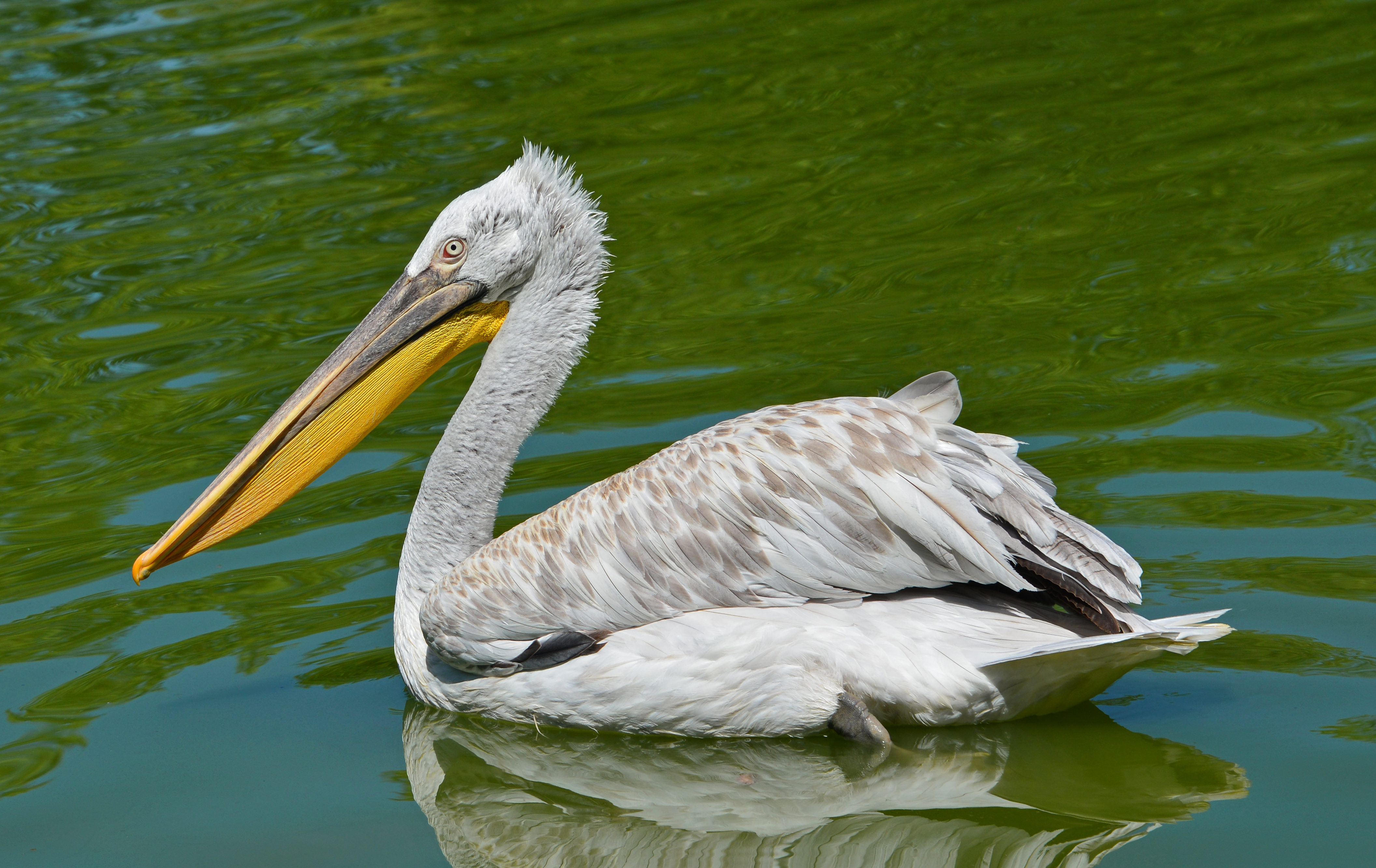 Dalmatian pelican (Pelecanus crispus)